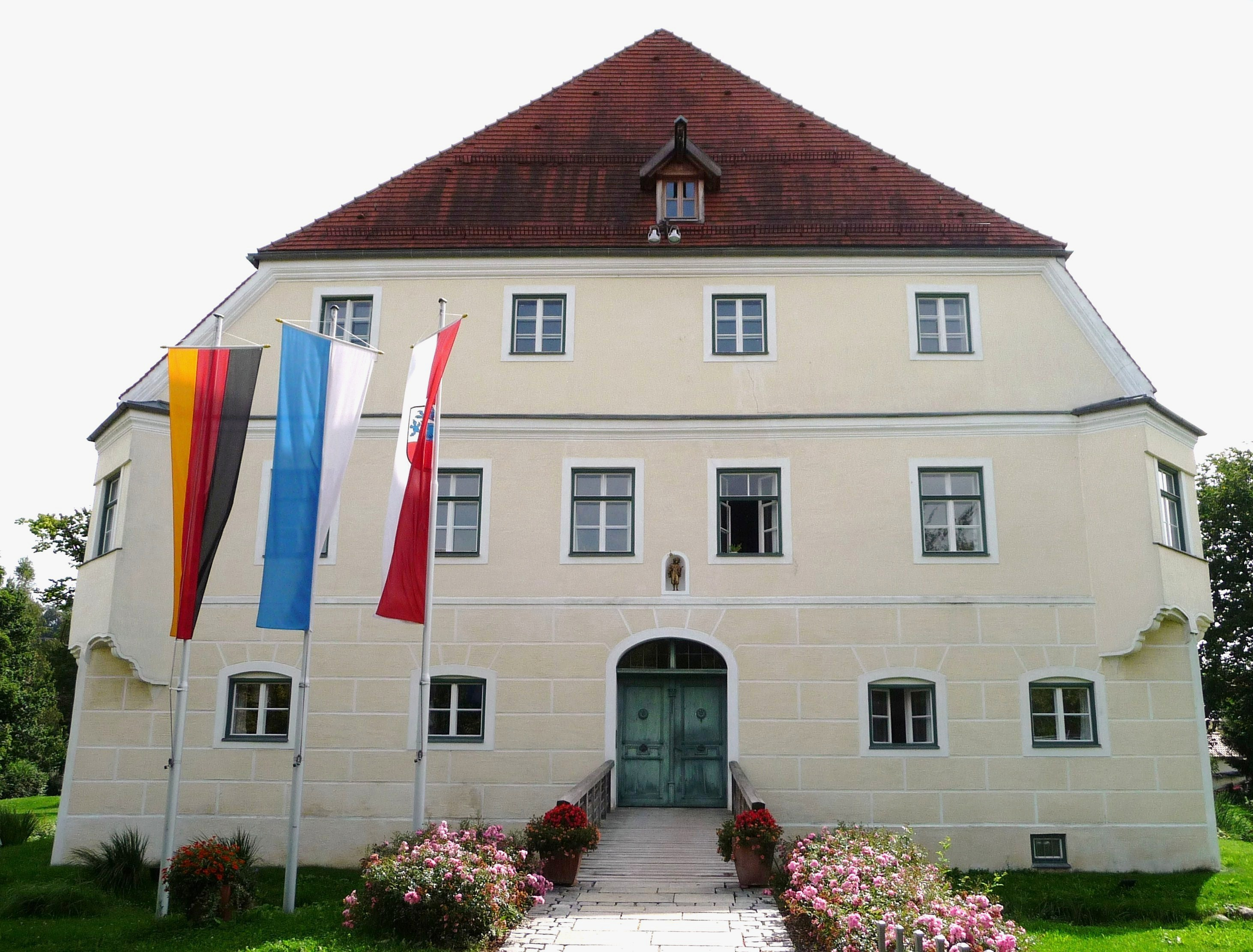 This is a photograph of an architectural monument.